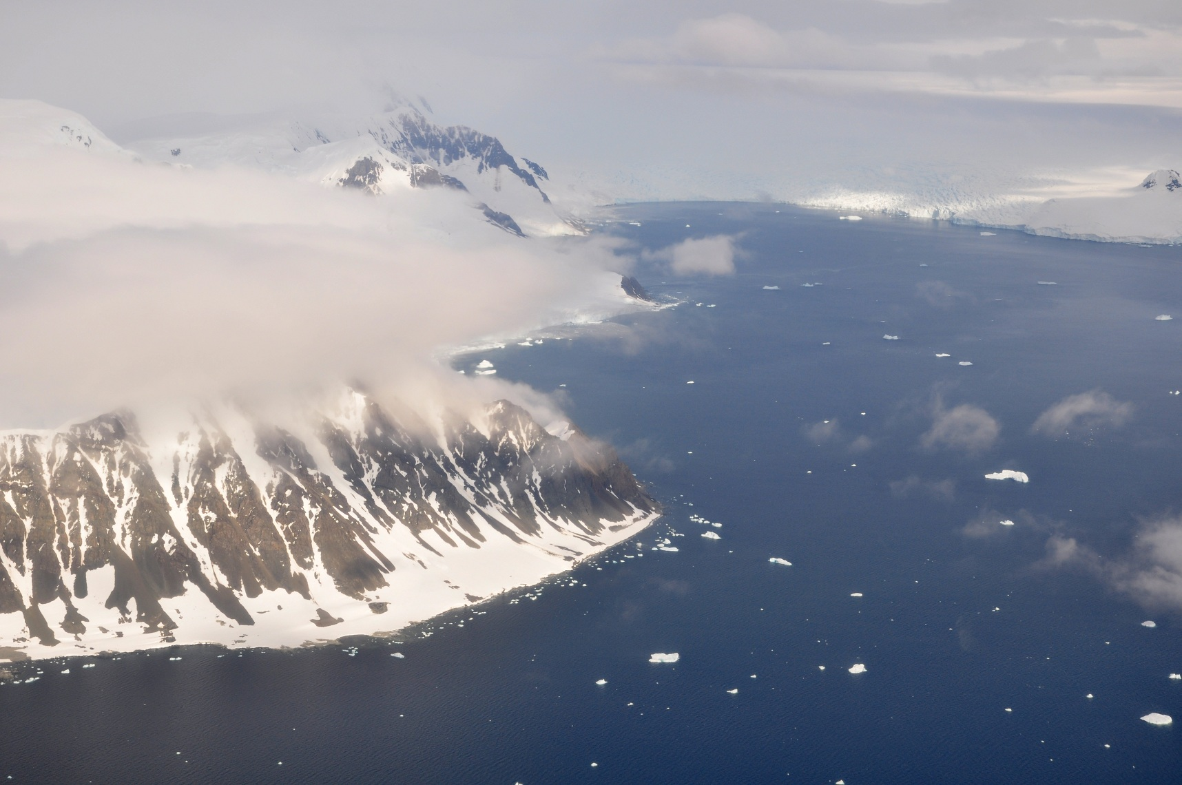 This picture is from the SW Antarctic Peninsula region. It's an aerial view, looking West, from a position over Laubeuf Fjord to a part of Adelaide Island's east coast. In the foreground on the left is Sighing Peak, which forms the NE extremity of Adelaide Island's Wright Peninsula. The mountains behind it are the Stokes Peaks. The channel in front of Sighing Peak is called Cole Channel (and is actually a part of Laubeuf Fjord). The large body of water on the right is Stonehouse Bay. In the upper right hand corner of the picture, at the western end of Stonehouse Bay, is the huge and heavily crevassed Shambles Glacier; Adelaide Island's largest glacier. To the right of the glacier, at the extreme edge of the picture, is Dewar Nunatak.